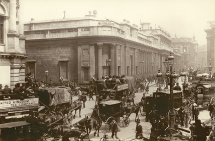 Traffic in front of the Bank of England in the City of London, at the interchange of Threadneedle St., Cornhill, and Prince Street.